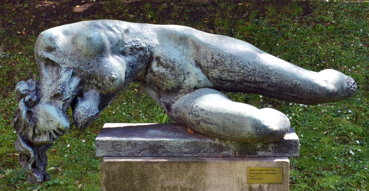 Tragedy (1937), sculpture by the Czech sculptor Karel Dvořák